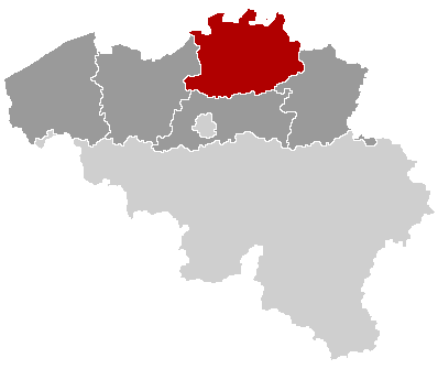 Map of Antwerp Province